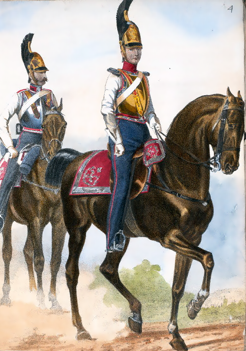 Russian Cavalry in 1827